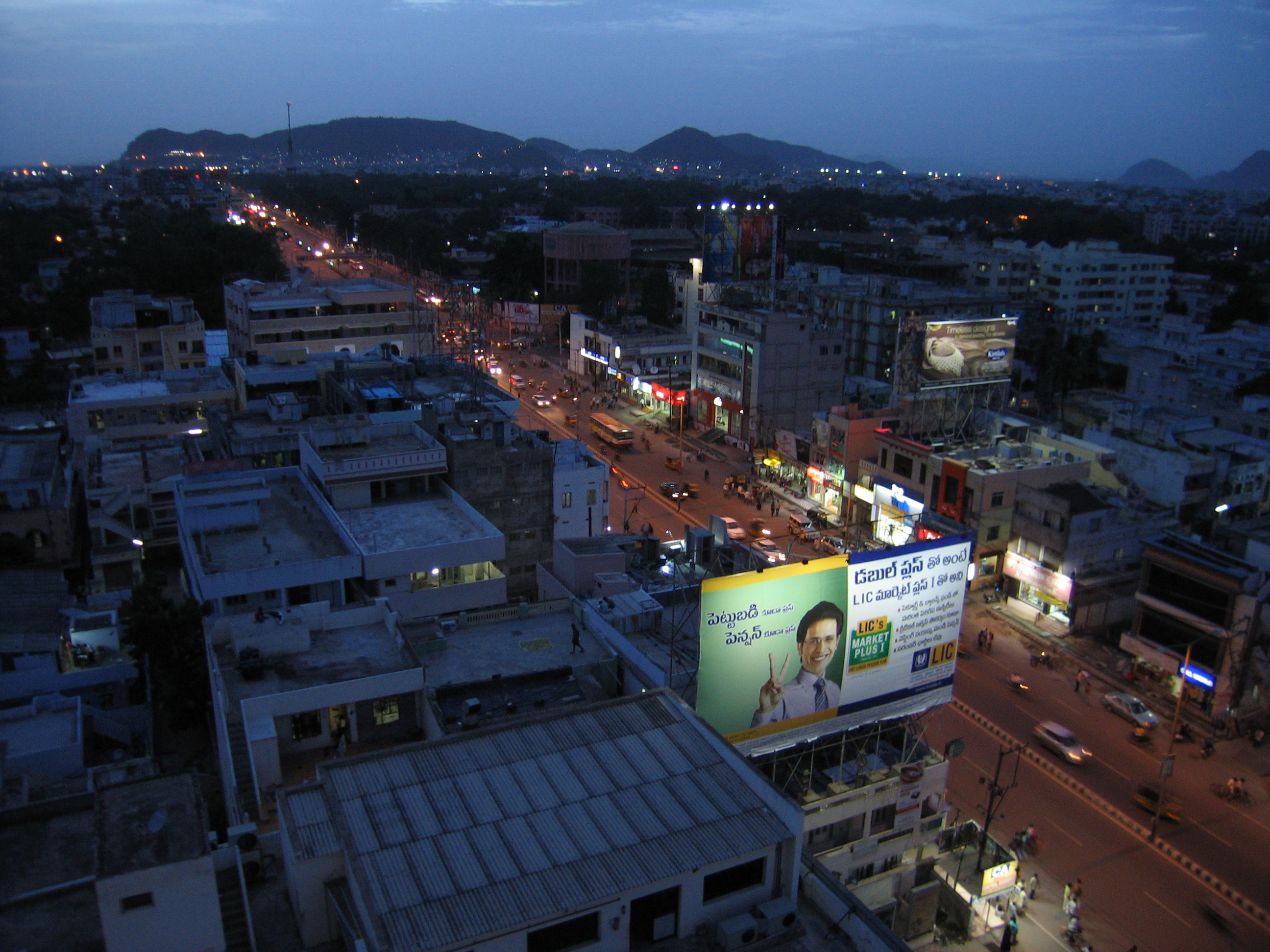 A view of MG Riad in Vijayawada